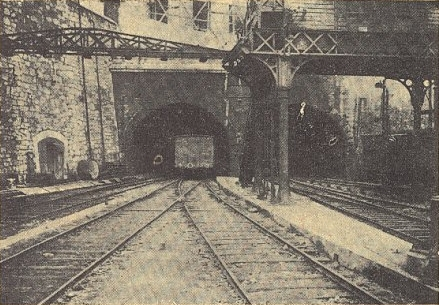 Tunnel entrance, inside the Rossio Railway Station, in the city of Lisbon, in Portugal. This photograph was published on the Gazeta dos Caminhos de Ferro magazine No. 1077, of the 1st November 1932, and scanned by the Hemeroteca Municipal de Lisboa.